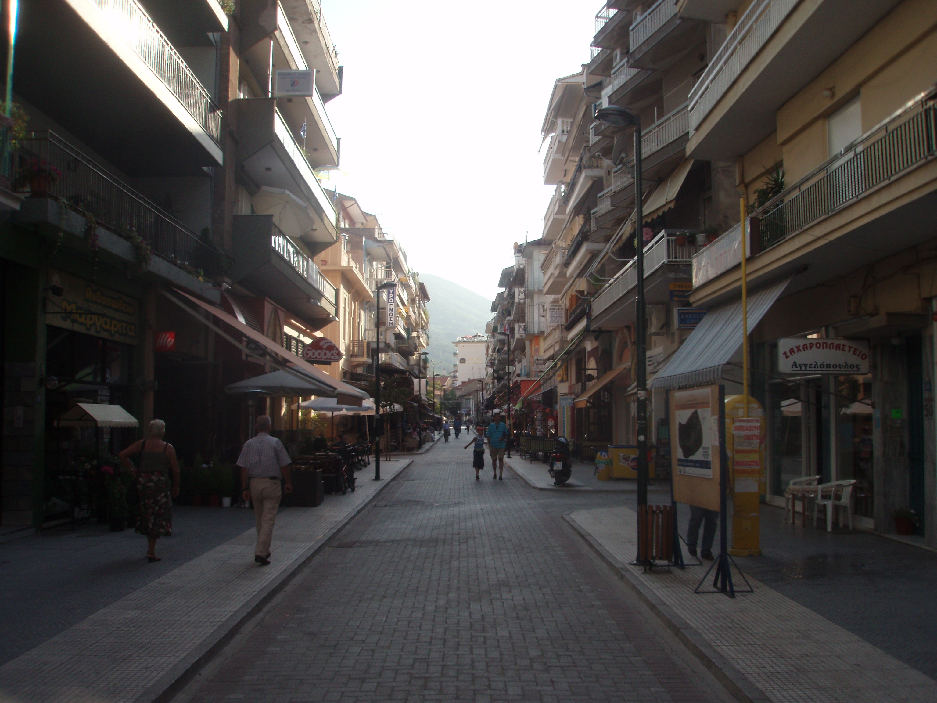 Pedestrian zone in the city of Florina, Greece.